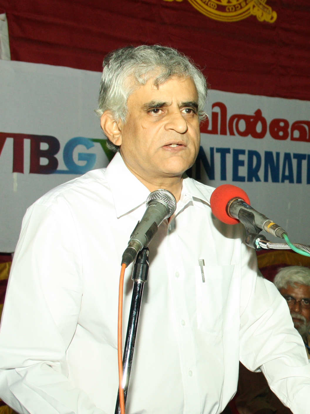 Journalist P. Sainath speaking at ViBGYOR International film Festival 2012.